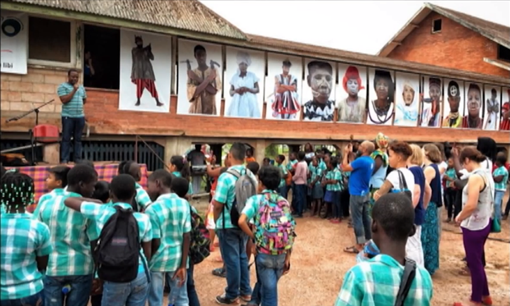 Moengo Festival of Theatre & Dance